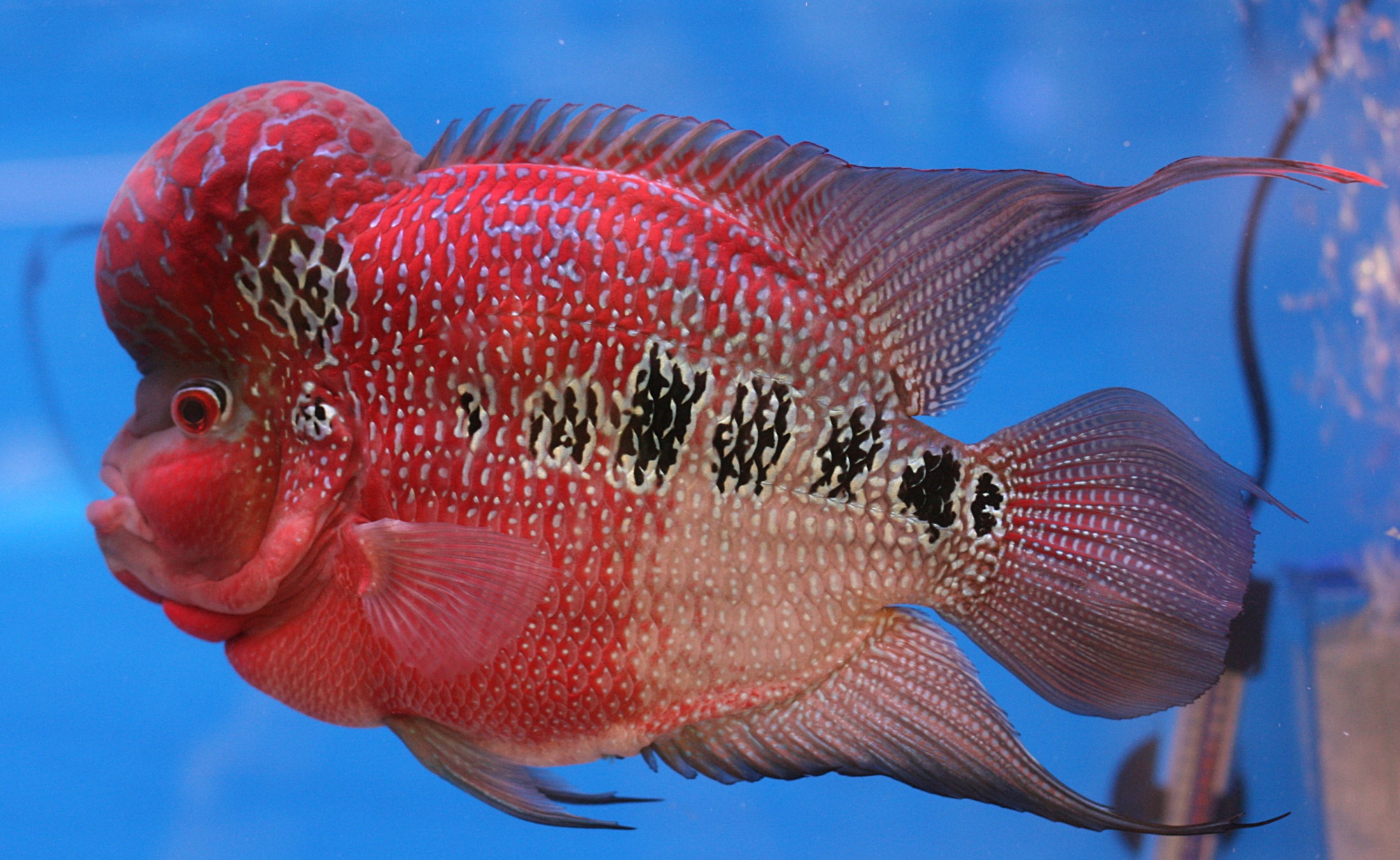 A flowerhorn (cichlid hybrid) from The 6th "Pramong Nomjai Thaituala" Thailand Tropical Fish Competition 2007. (Won consolidation prize)